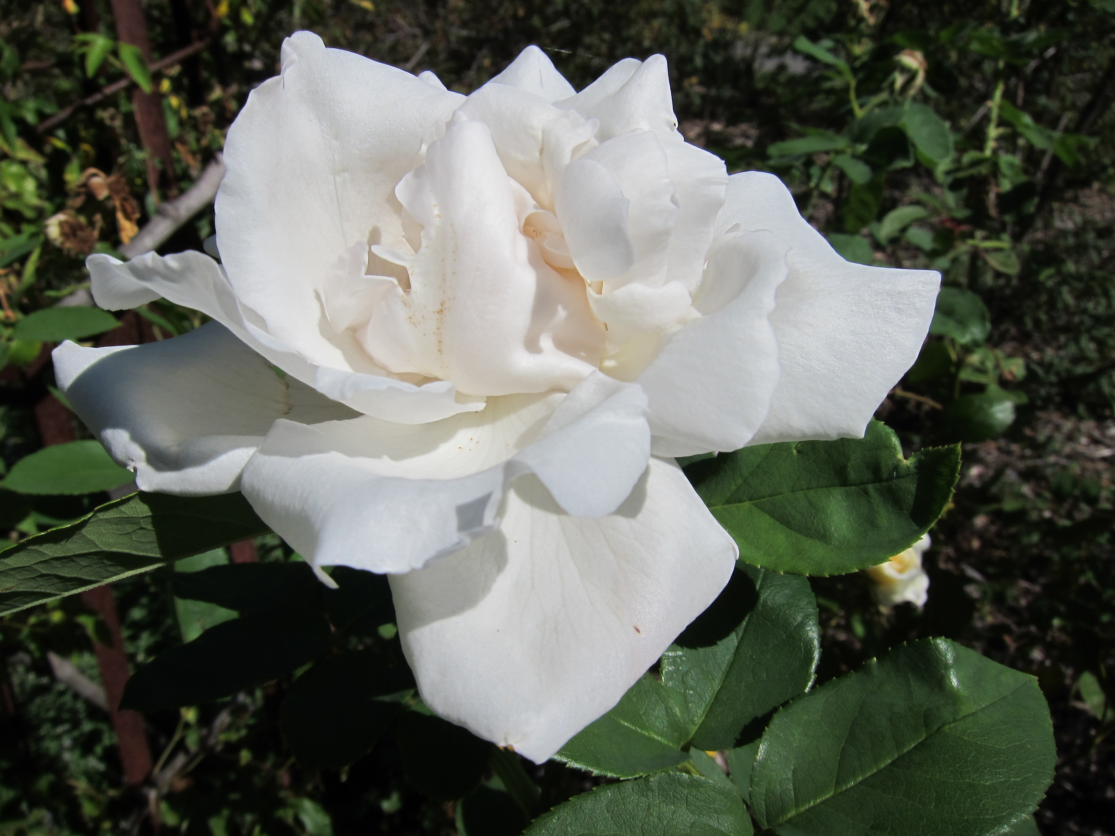 Rosa 'Frau Karl Druschki' Lambert 1901